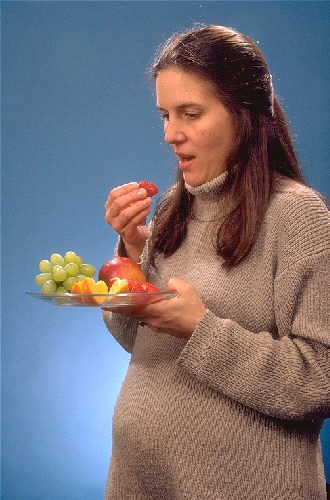 Nutrition in pregnancy. Pregnant woman eating strawberries, grapes, orange slices, and apple.